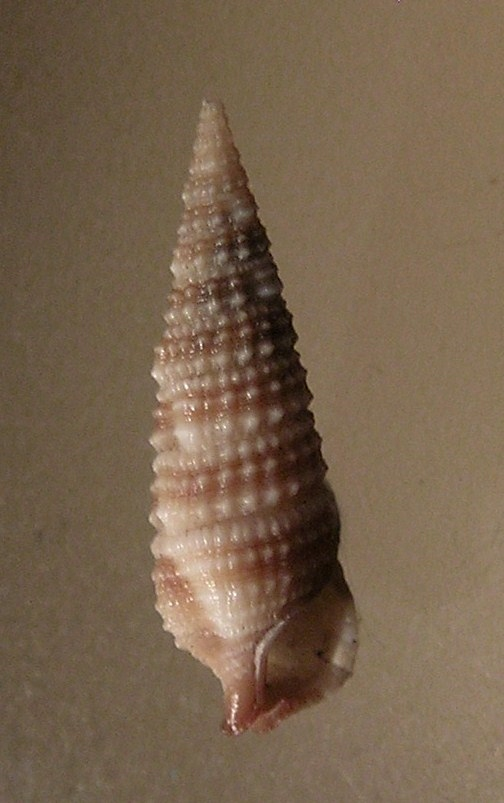 Rhinoclavis sordidula A. A. Gould, 1849, a sea snail from the family Cerithiidae; Philippines